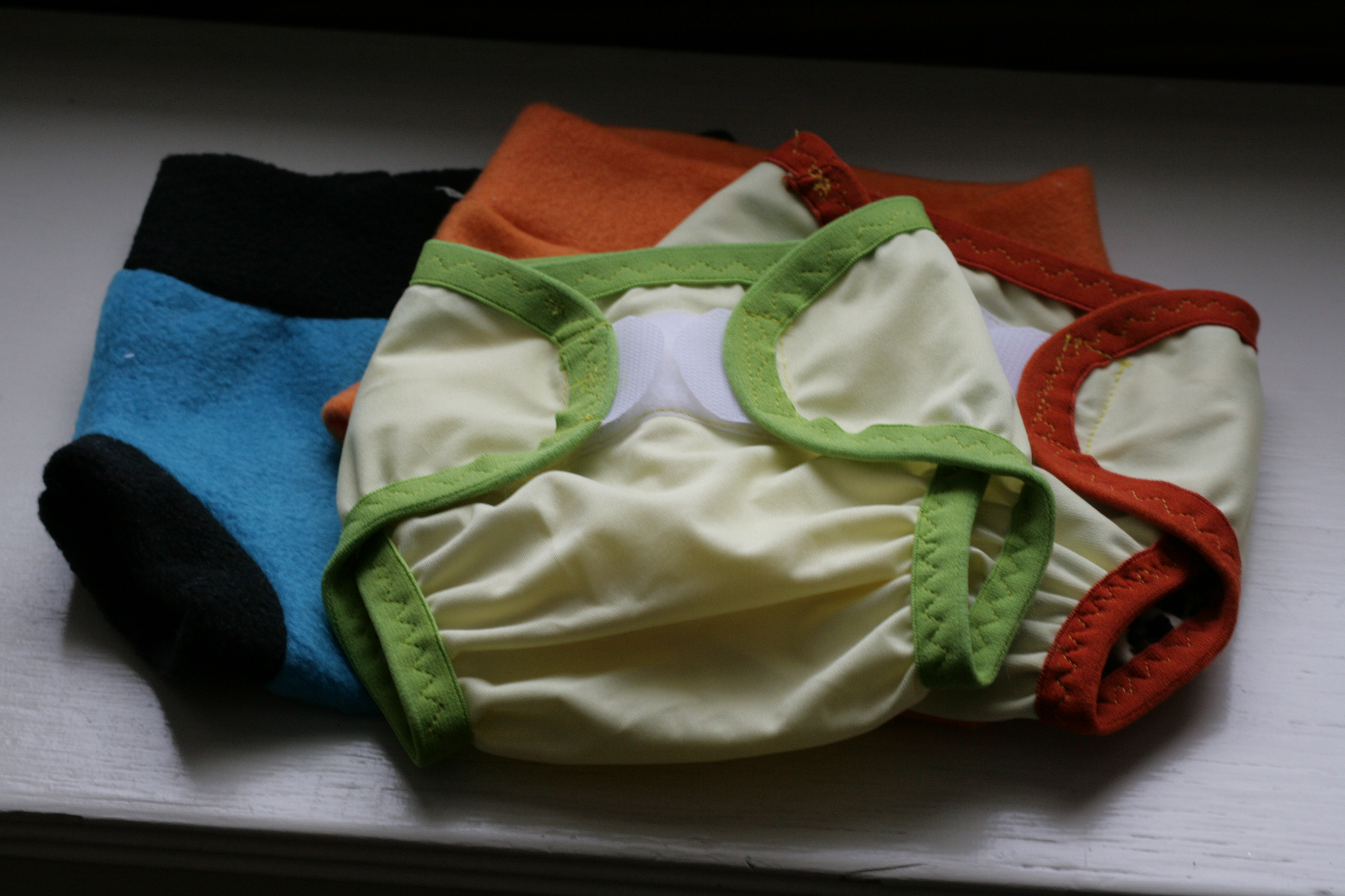 Fleece and PUL covers made from scraps and leftovers